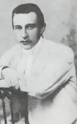 Feodor Chaliapin (left) and Sergei Rachmaninoff, c. 1890